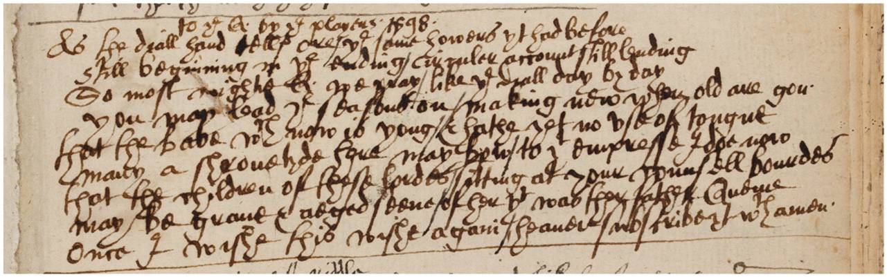 manuscript from c1599 of a poem ascribed to Shakespeare